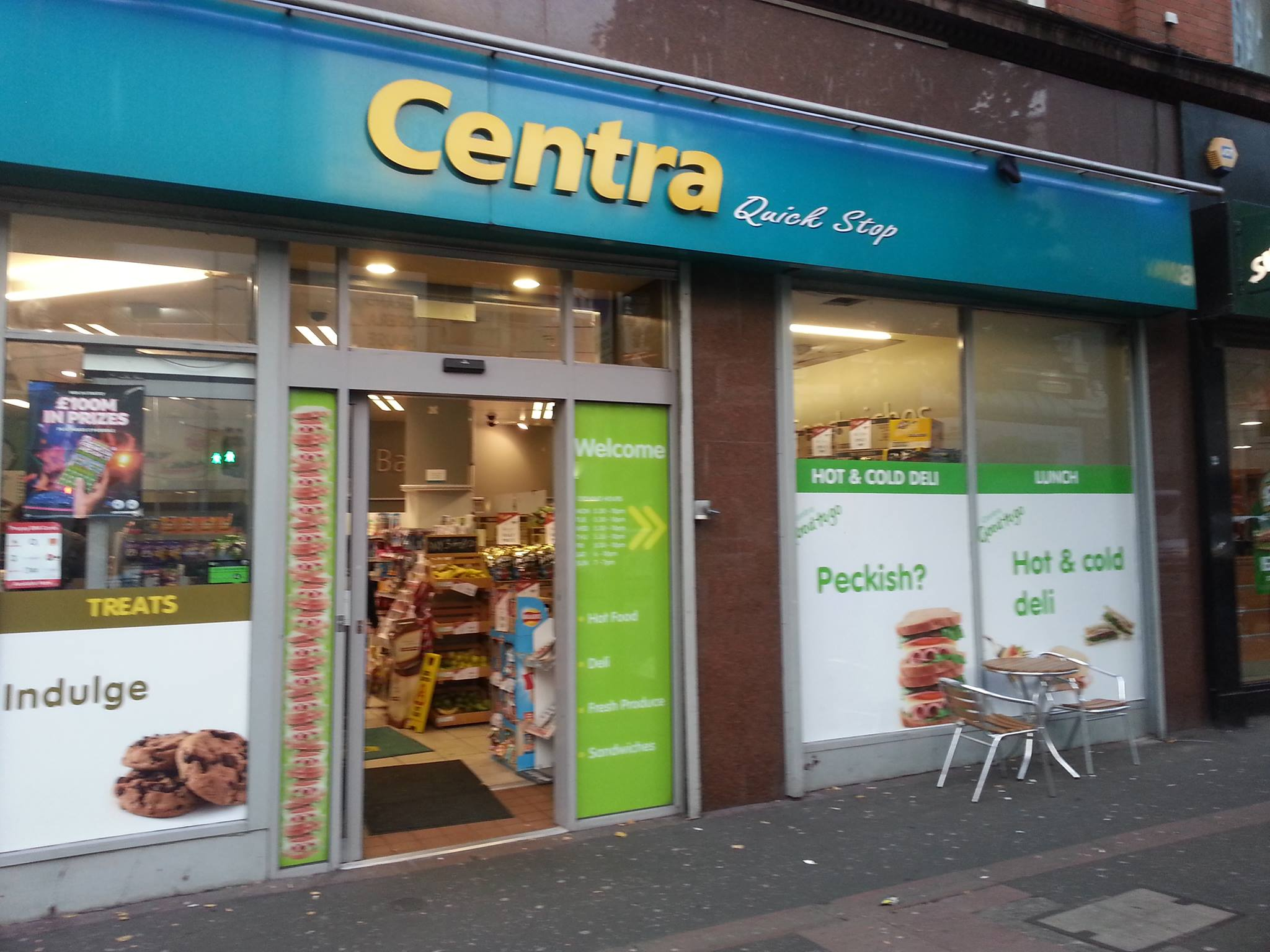 Image of Centra, Great Victoria Street, Belfast, Northern Ireland.